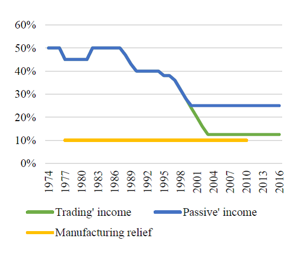 Irish corporation tax rates (standard rate, manufacturing rate, passive rate) from 1974 to 2016; Sourced from Irish Revenue Commissioners